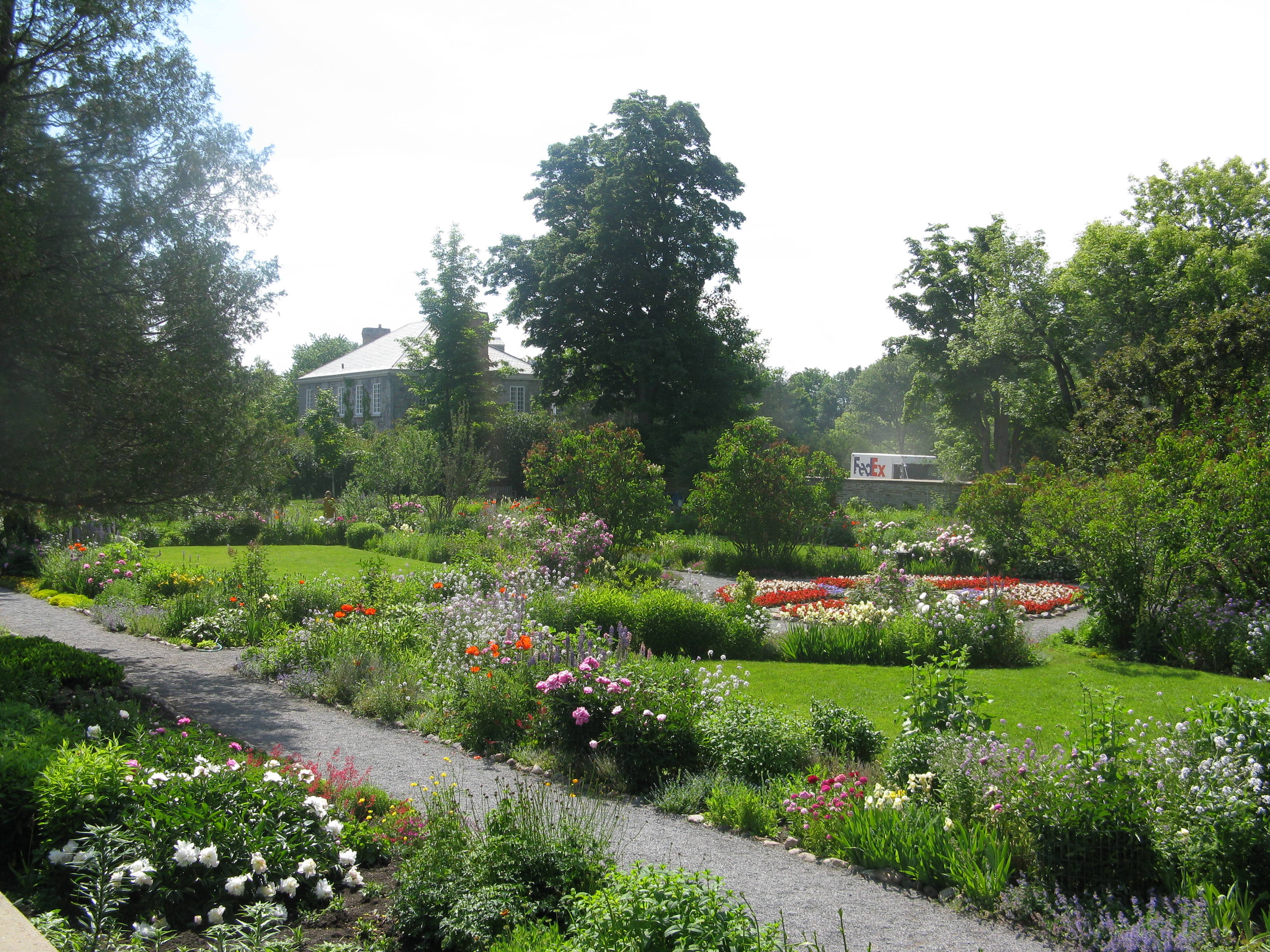 528 Richmond Rd., Ottawa, Ontario, Canada. Walled garden at Maplelawn National Historic Site, in the village of Westboro. A rare instance of a European-style walled garden in Canada, dating back to the 1830s.